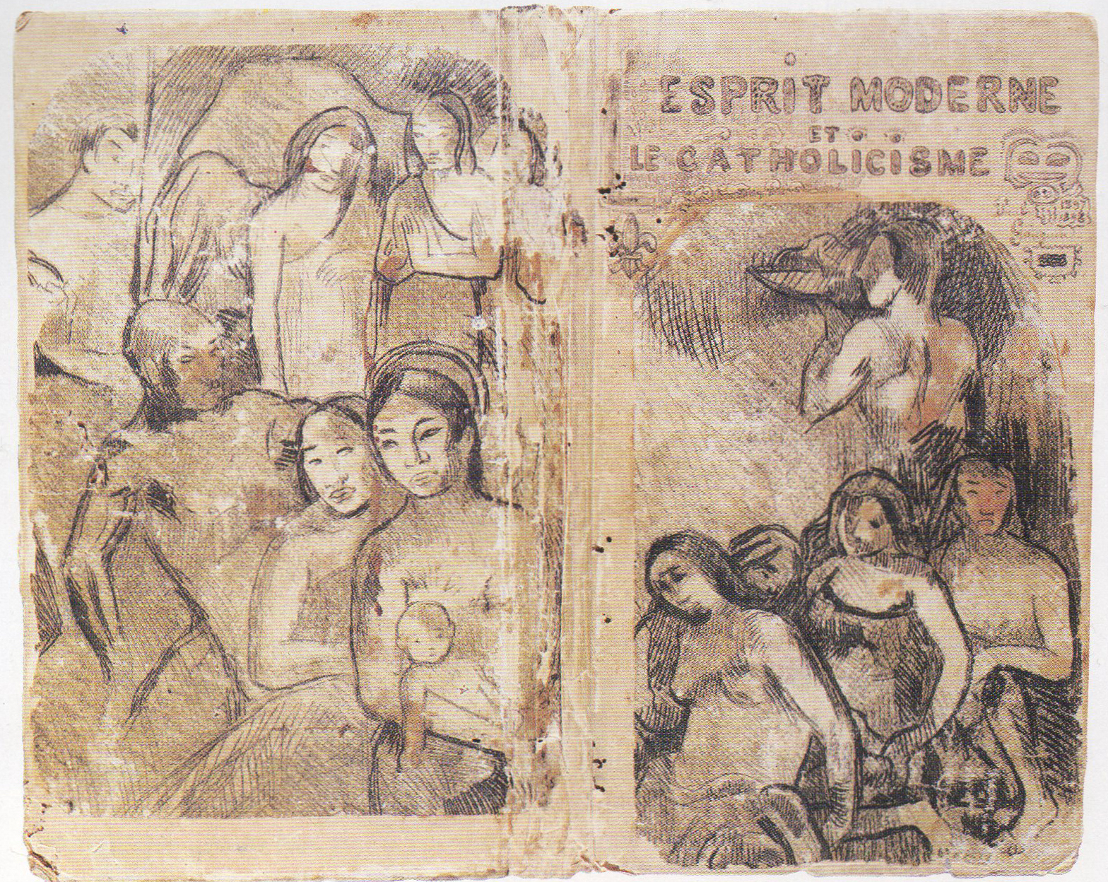 Front and back covers of Paul Gauguin's 1902 manuscript L'Esprit Moderne et le Catholicisme